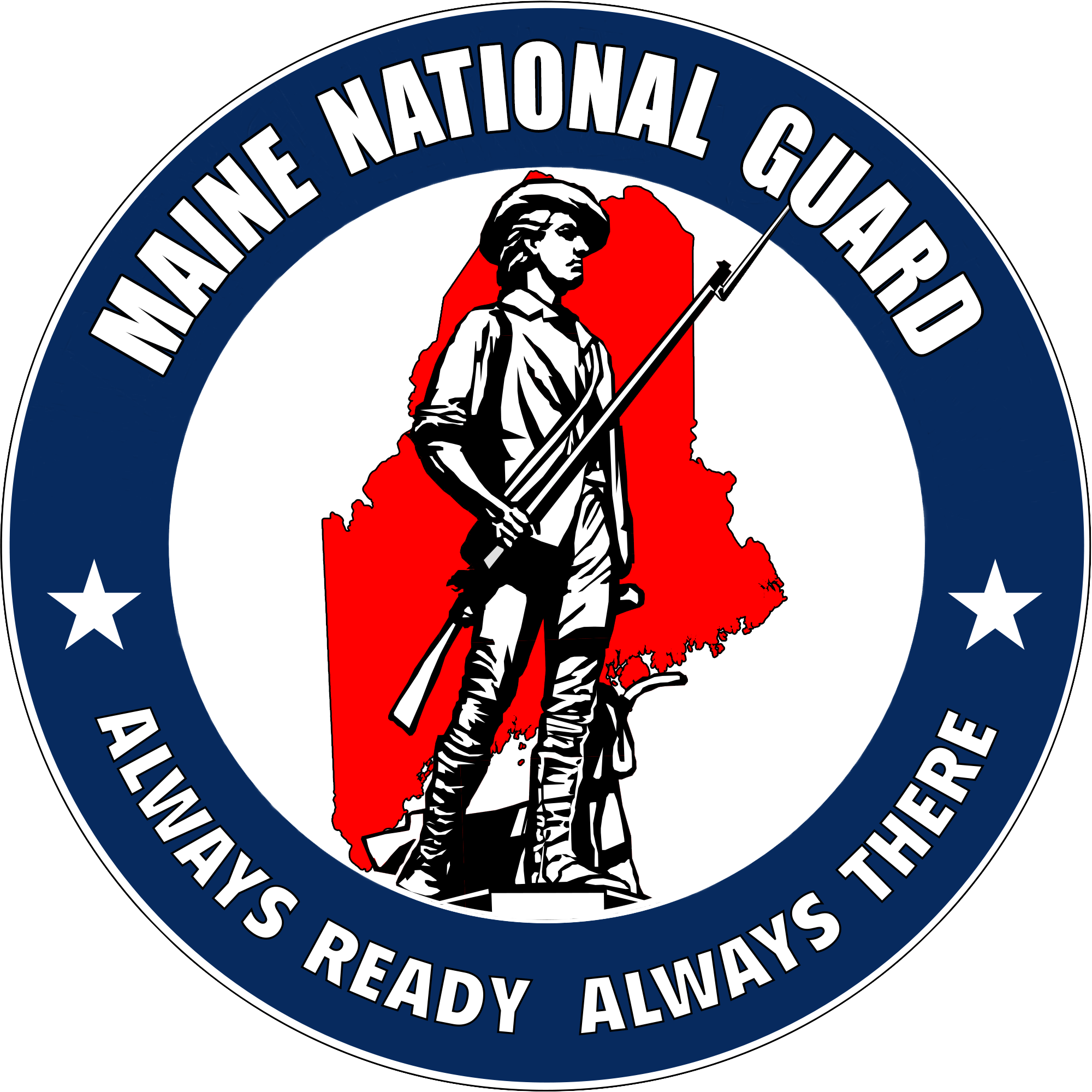 Maine National Guard Logo